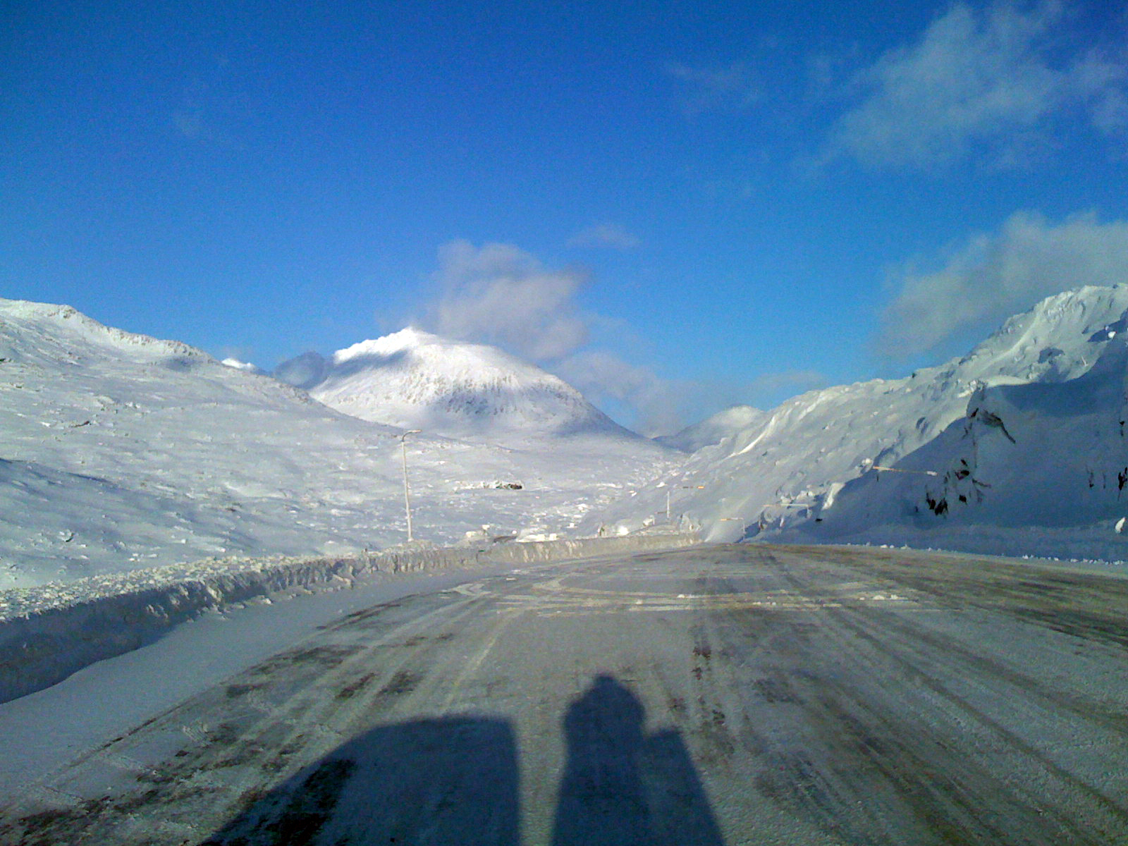 White Pass, Klondike Highway